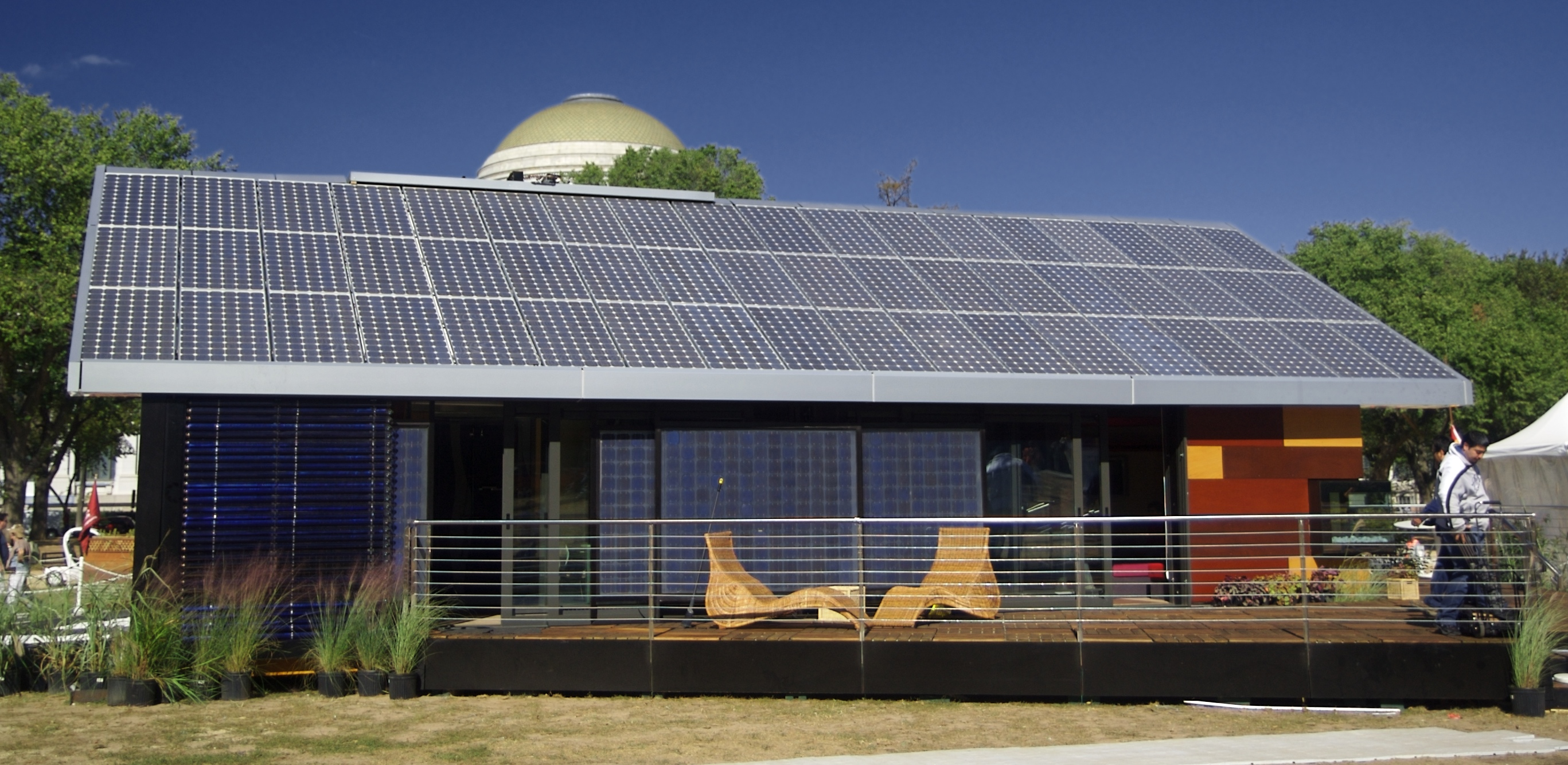 Back view of Universidad Politecnica de Madrid house at the Solar Decathlon 2007.